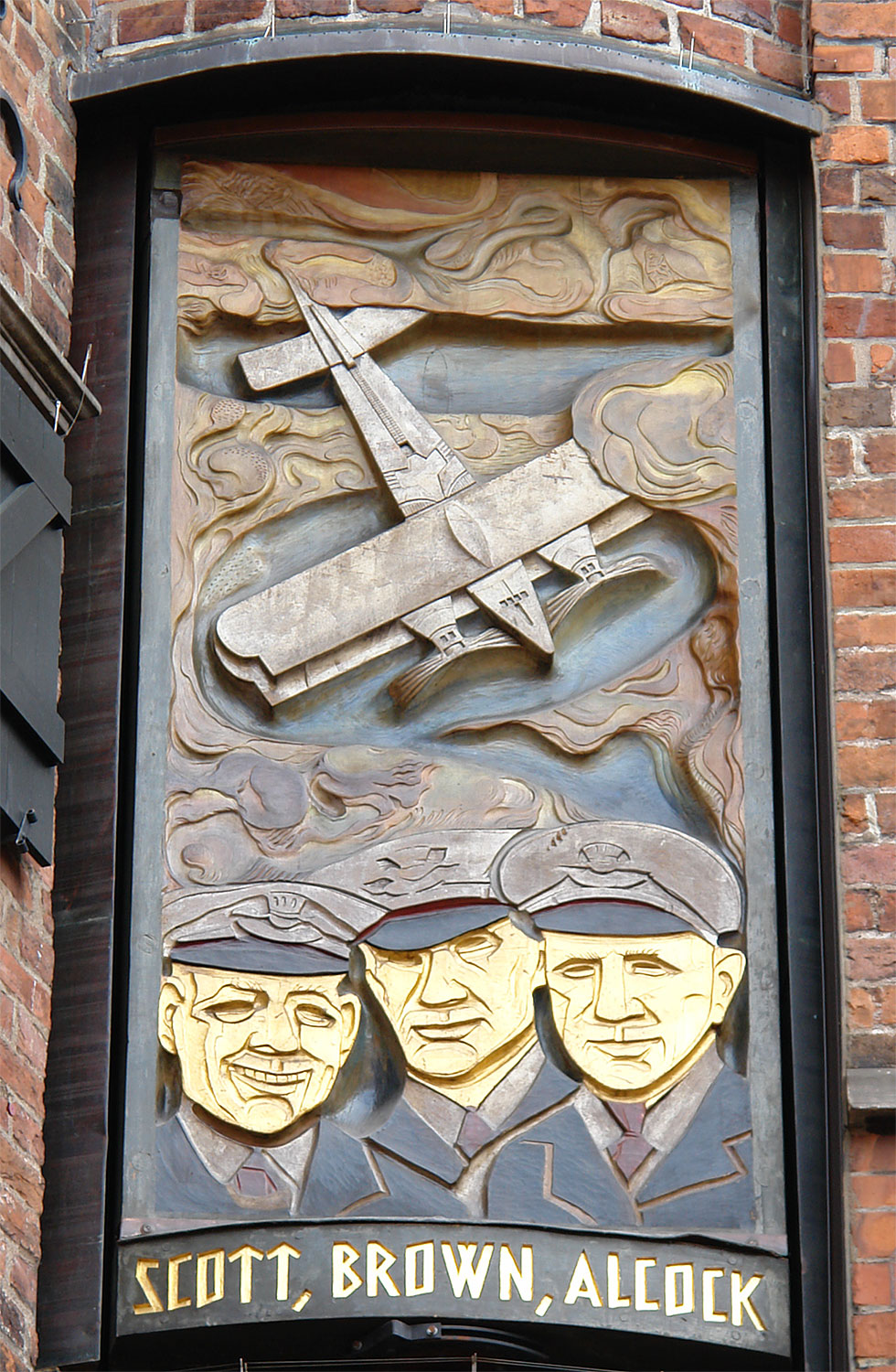 Bernhard Hoetger: Major Scott, Lieutenant Arthur Whitten Brown, Captain Alcock (1934, Ocean-crossers in 10 panels). Location: Haus des Glockenspiels in der Böttcherstraße, Bremen. Brown and Alcock flew a modified Vickers Vimy bomber from to Ireland in June 1919; Major George Scott flew the R-34 airship from East Fortune, Scotland to Mineola, Long Island, USA in July 1919.